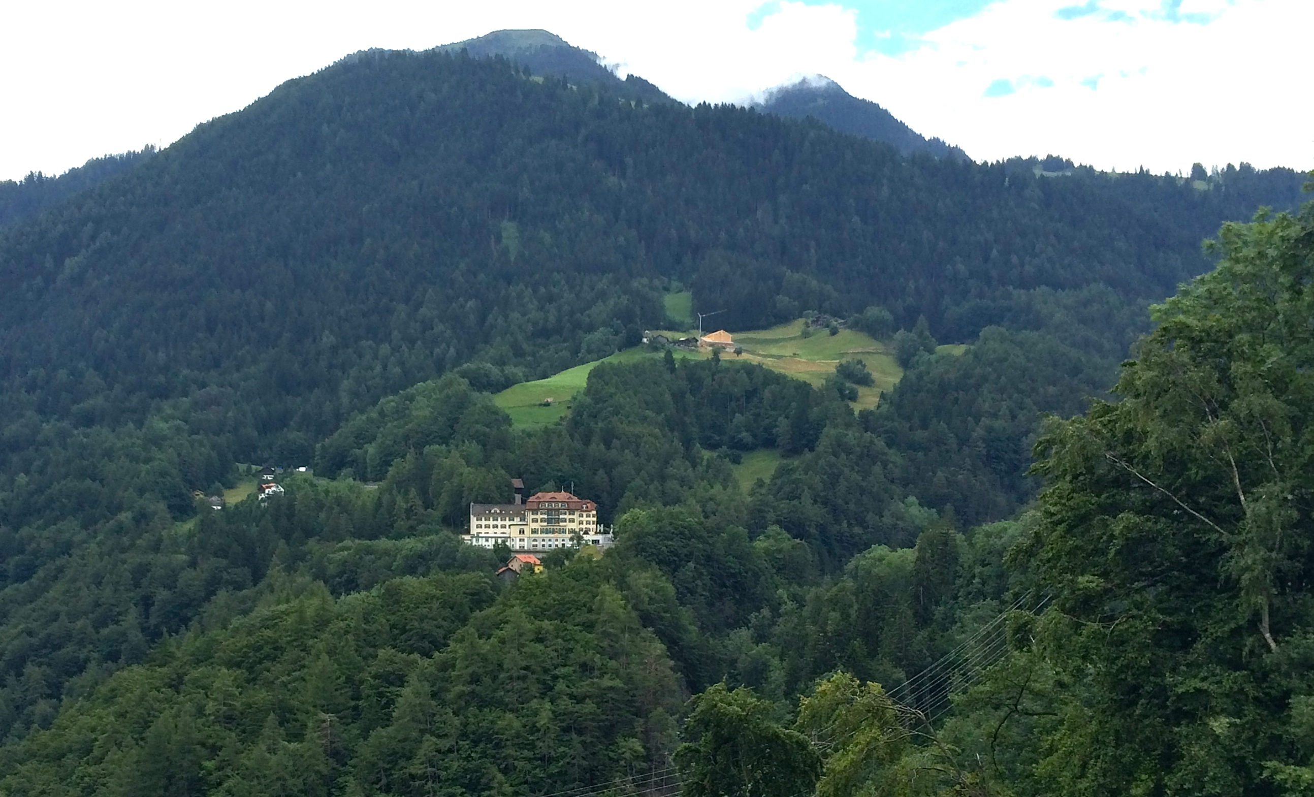 Swiss School of Tourism and Hospitality in Passugg